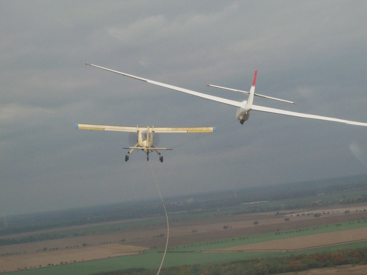 A PZL-104 Wilga towing two Gliders at once.